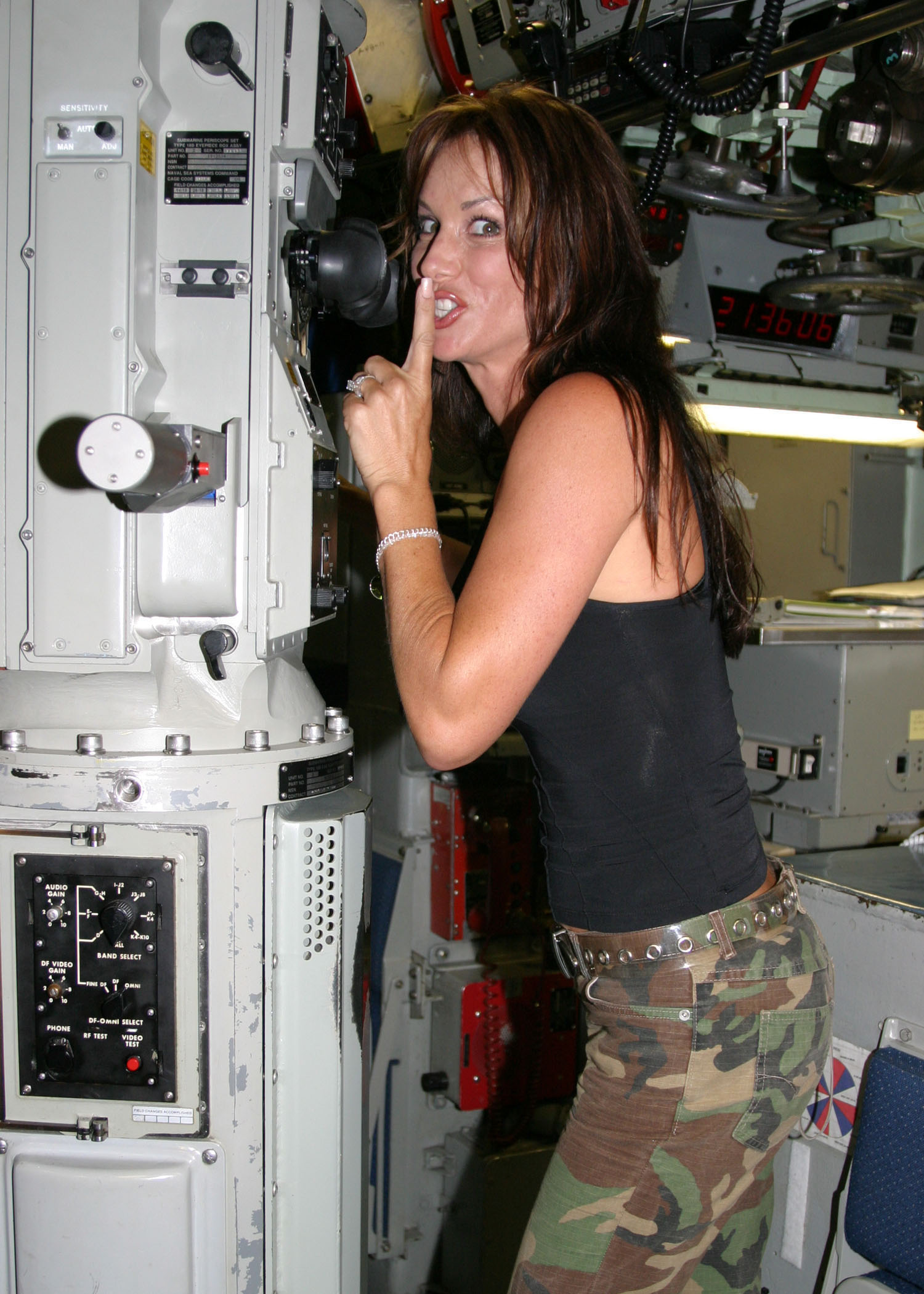 Debbe Dunning/Debbe Dunning. 030811-N-5539C-001 Pearl Harbor, Hawaii. "Actress Debbe Dunning, “Heidi” from the sitcom "Home Improvement", signals that she understands the "silent service" after peeking through the periscope during a tour aboard USS Key West (SSN 722)."